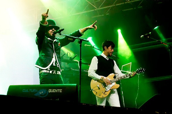 Cafe Tacuba performing in el Festival Cultura de Quente en Caldas de Reis, Pontevedra, Spain